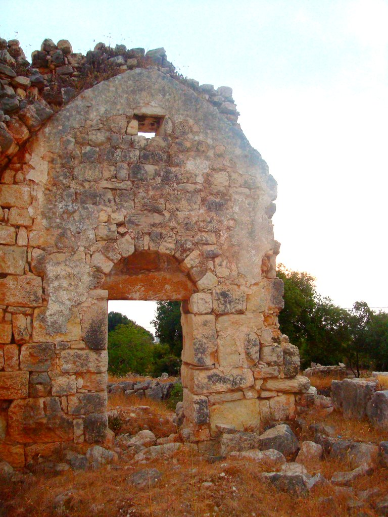 Ruins Double Church Edde Jbeil